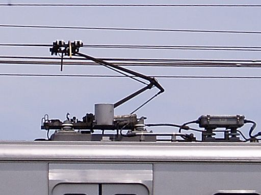 Pantograph of Odakyu Electric Railway Company, EMU Type 3000.